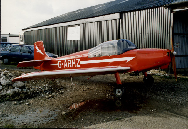 Rollason Condor - G-ARHZ - stands outside the new hangars at Andrewsfield. The hangar with the White sign houses the Maintenance organisation.